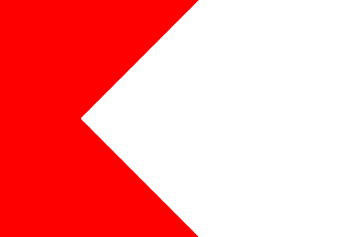 Flags of U.S. Shipping Companies